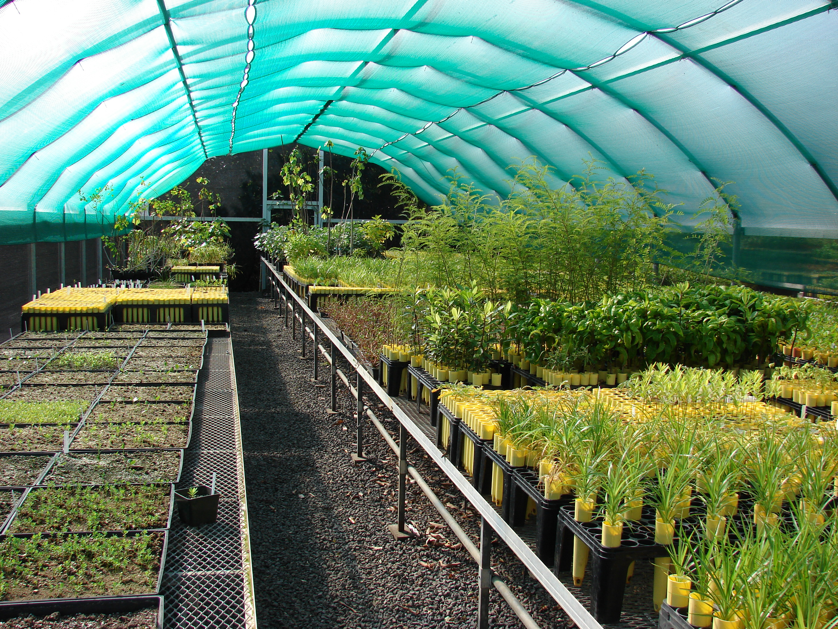 Pleomele auwahiensis (in pots view greenhouse). Location: Maui, Hoolawa Farms Haiku